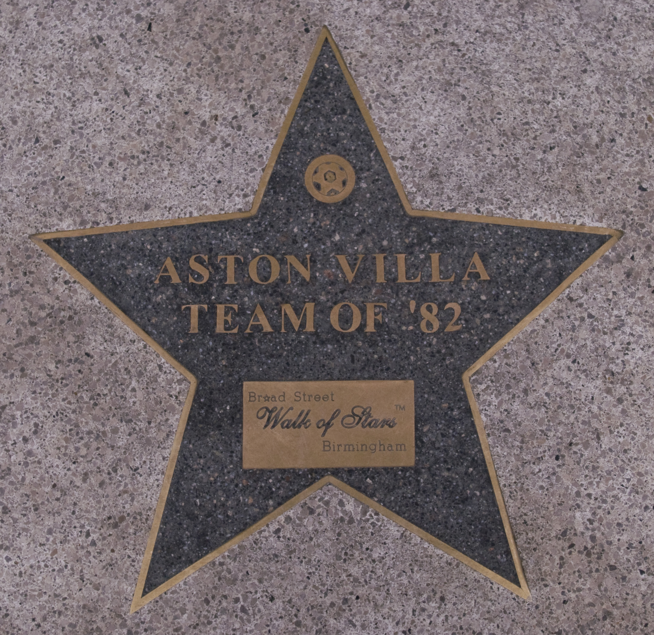 Star for football team Aston Villa F.C. on the Birmingham Walk of Stars on Broad Street, Birmingham, England. Photographed by me 26 March 2010. Oosoom